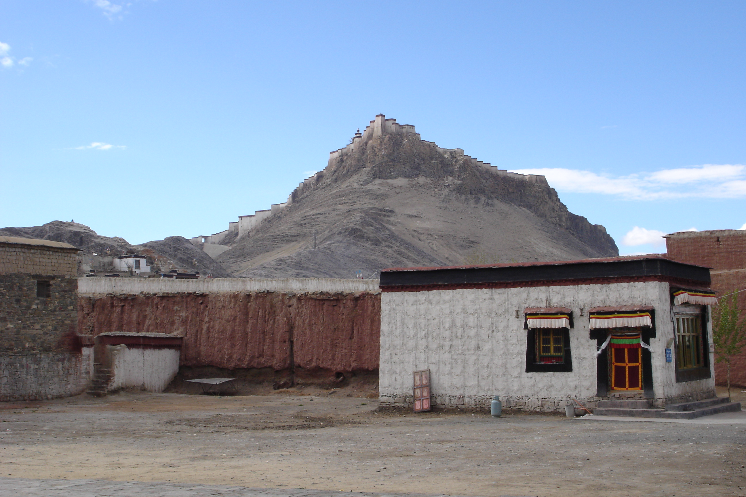 Gyantse dzong (Tibet Autonomous Region, People's Republic of China).